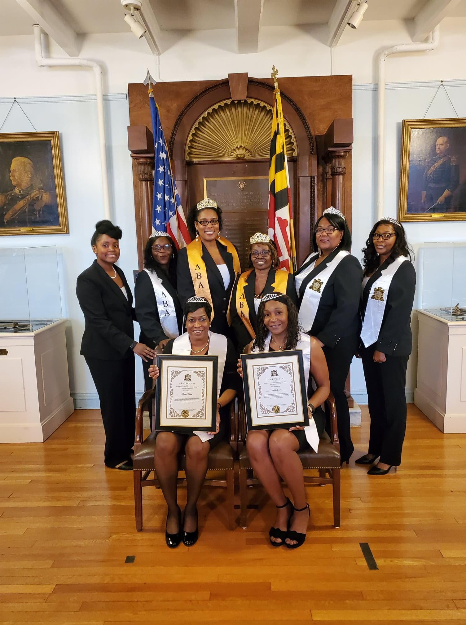 This is a photo taken on December 21, 2019 after the induction of Command Sergeant Majors Michele S. Jones and Perlisa D. Wilson into Lambda Beta Alpha Military Sorority, Inc.